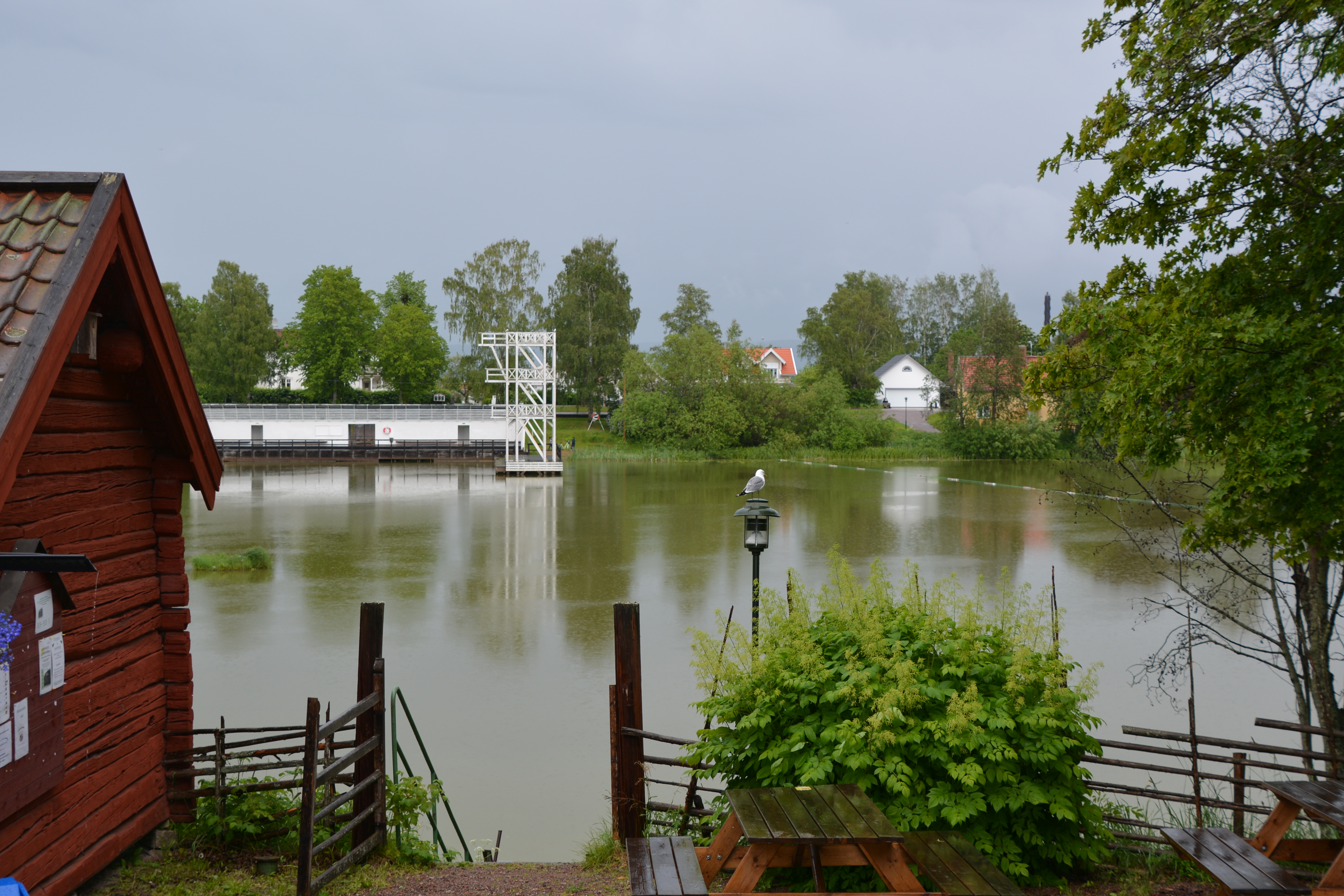 Lake Hönsan, Hedemora, seen from Hedemora gammelgård